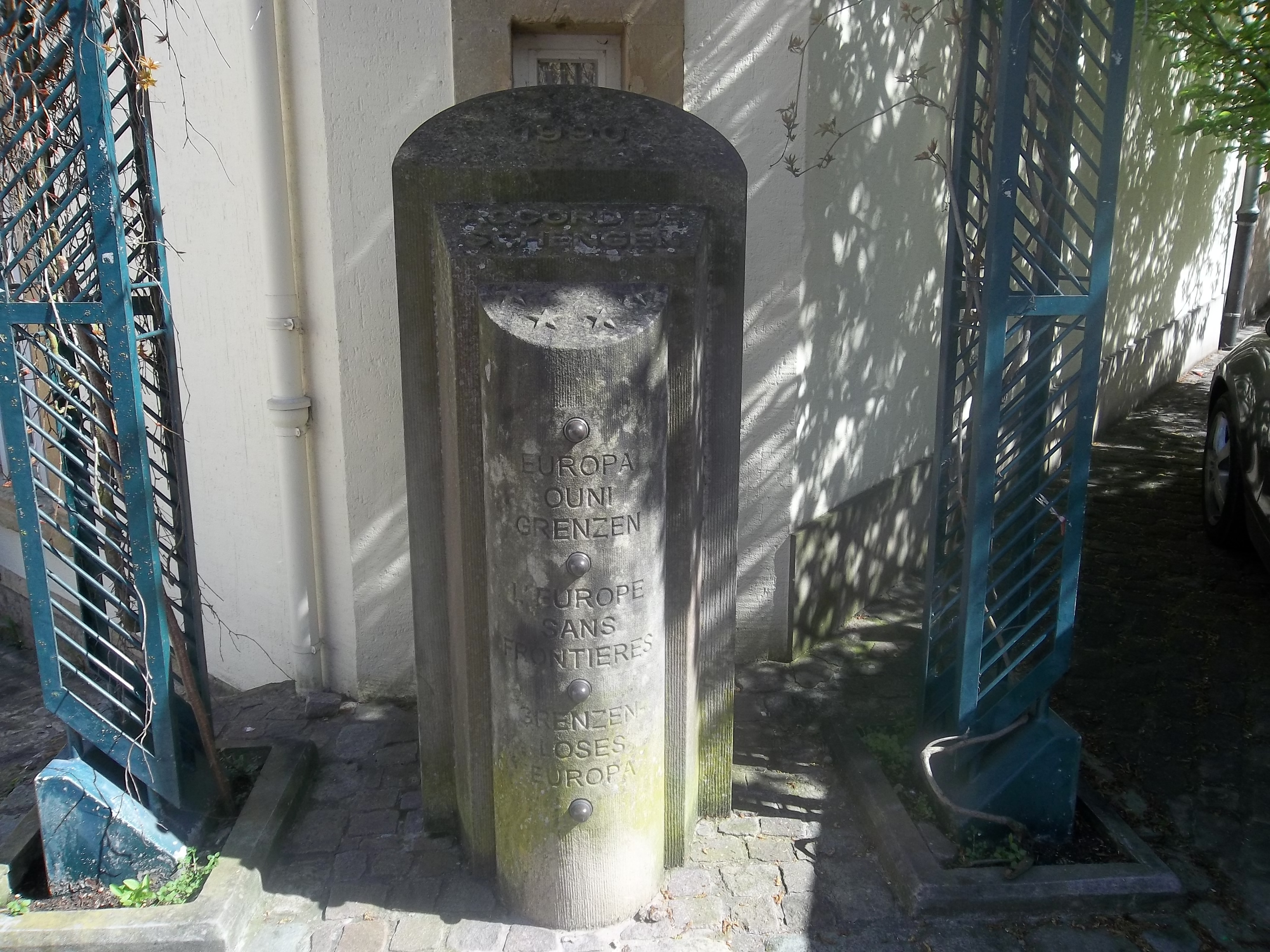 Memorial to the Schengen Treaty